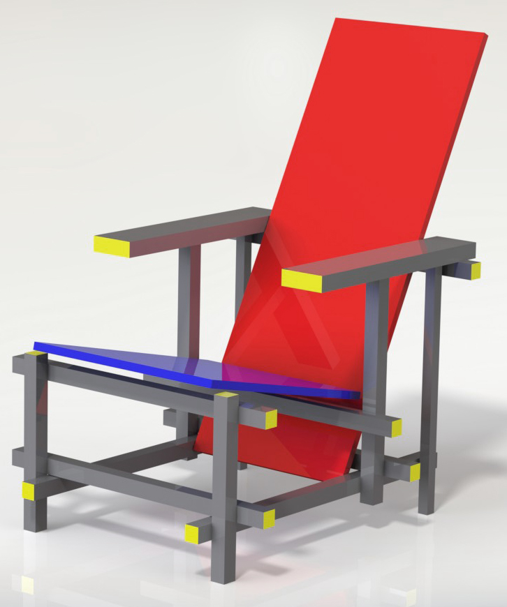 Rietveld chair modelled and rendered in SolidWorks